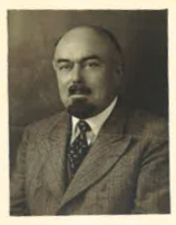 Edouard Dhorme, Paris vers 1940